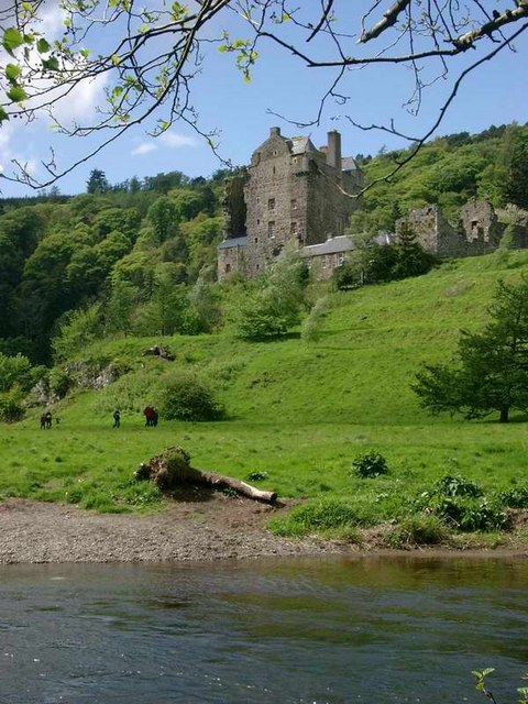 Neidpath Castle. The Tweed flowing along below.